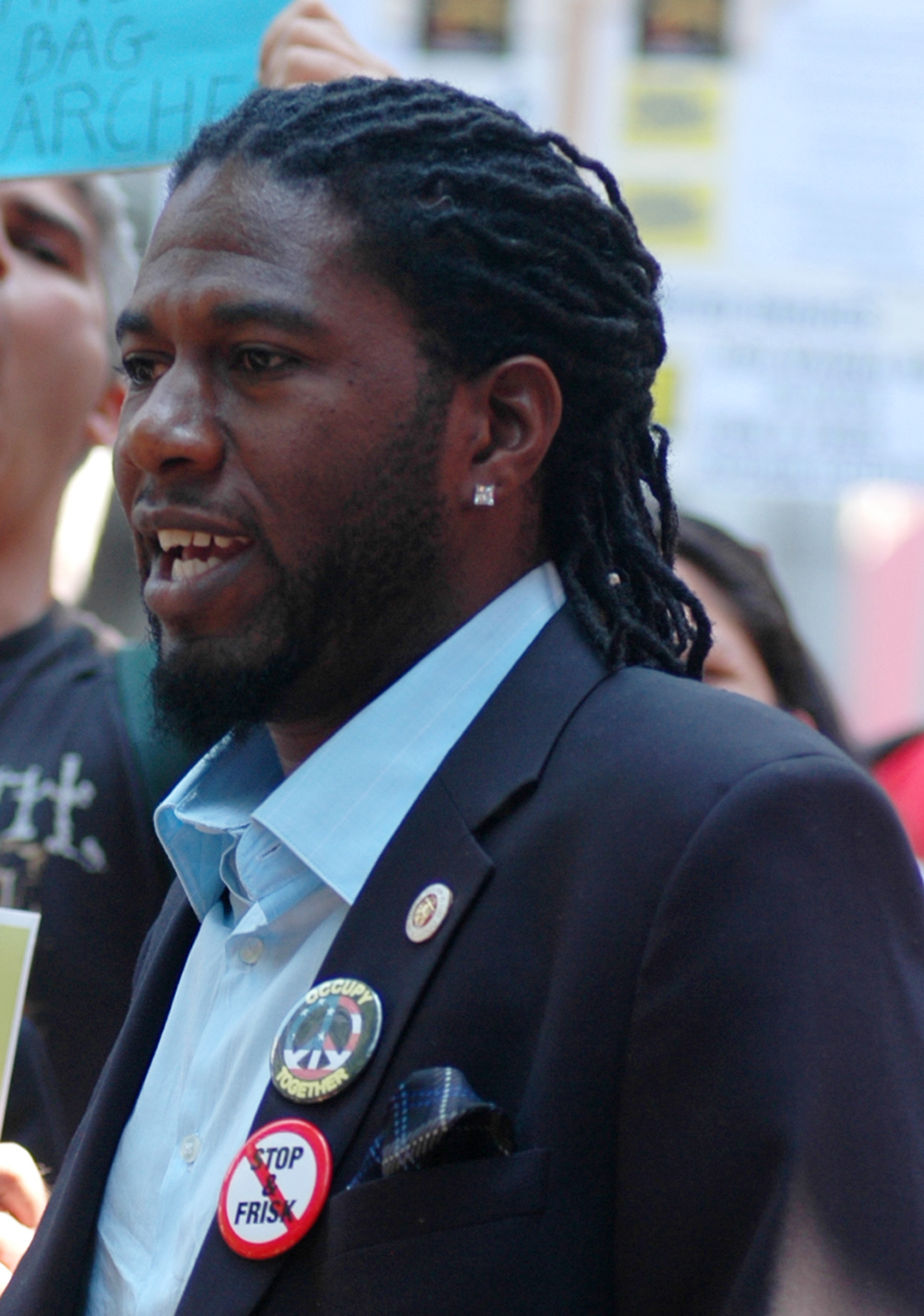 New York City councillor Jumaane Williams, at an Occupy Wall Street rally in Zuccotti Park, September 2012